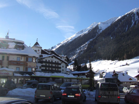 Lower part of the Ischgl village, around Hotel Nevada.